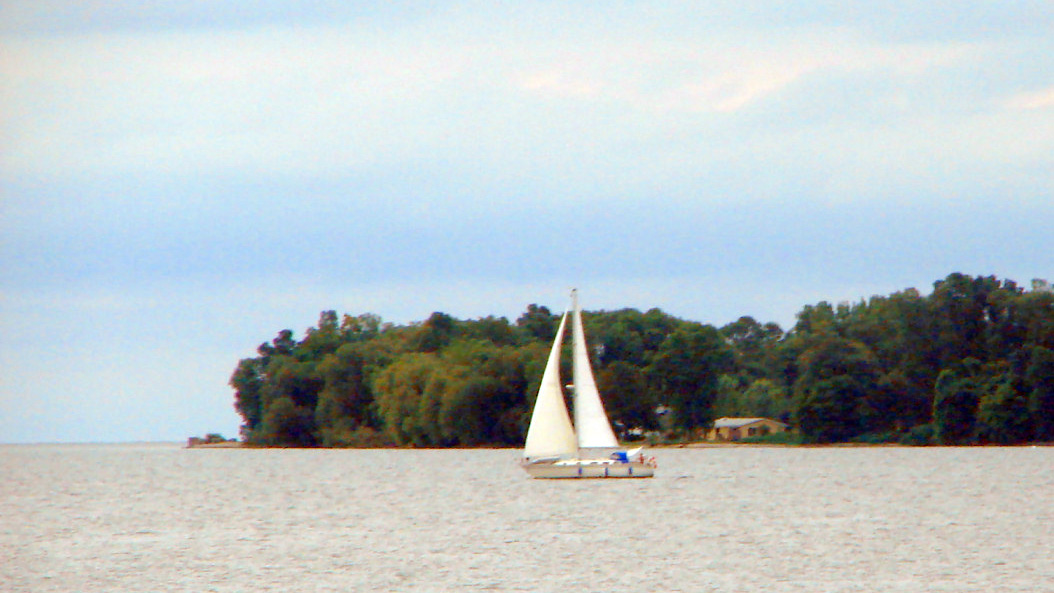 Indian Point, the north-eastern tip of Prince Edward County, Ontario, Canada